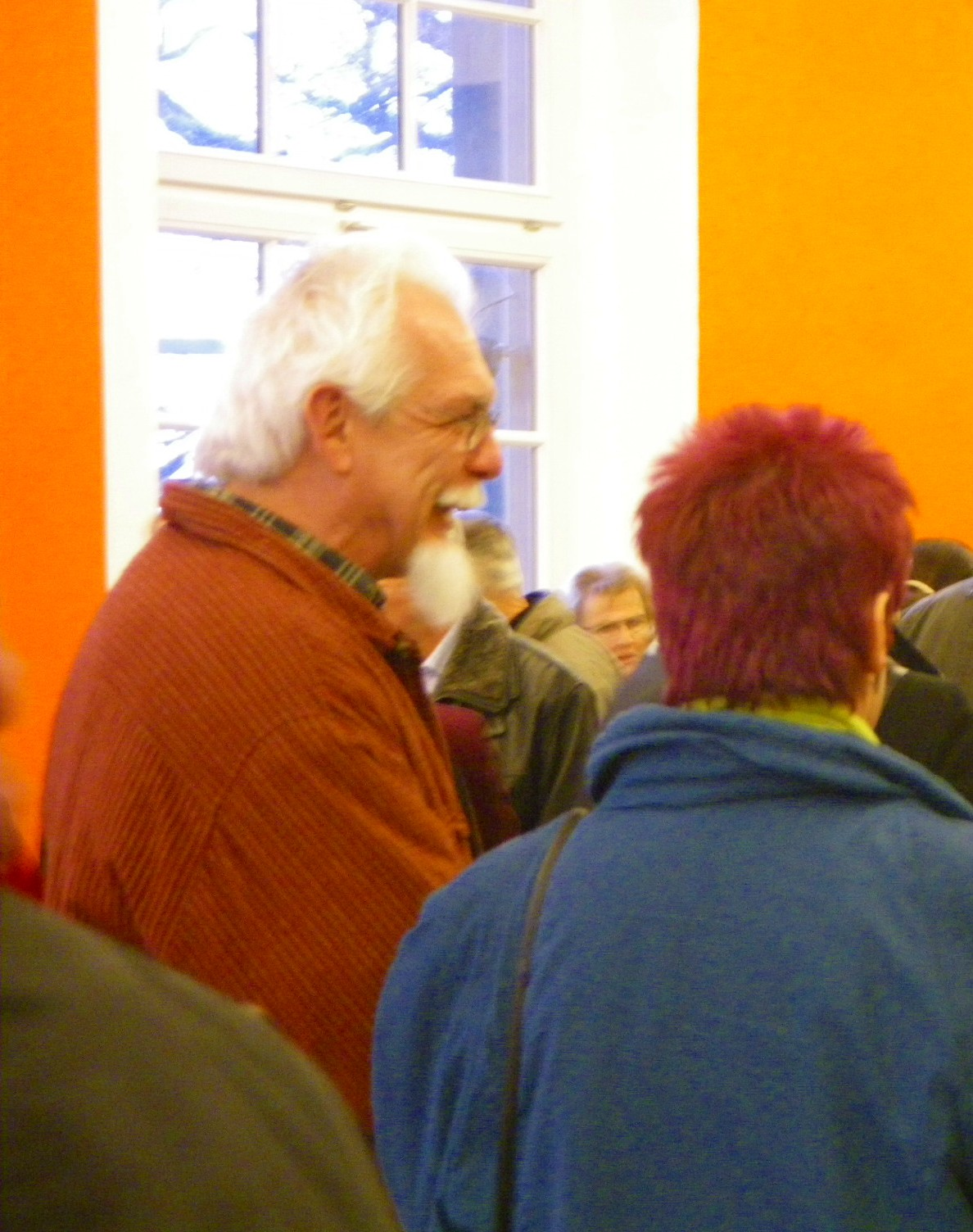 Ulrich Tarlatt, painter from Bernburg